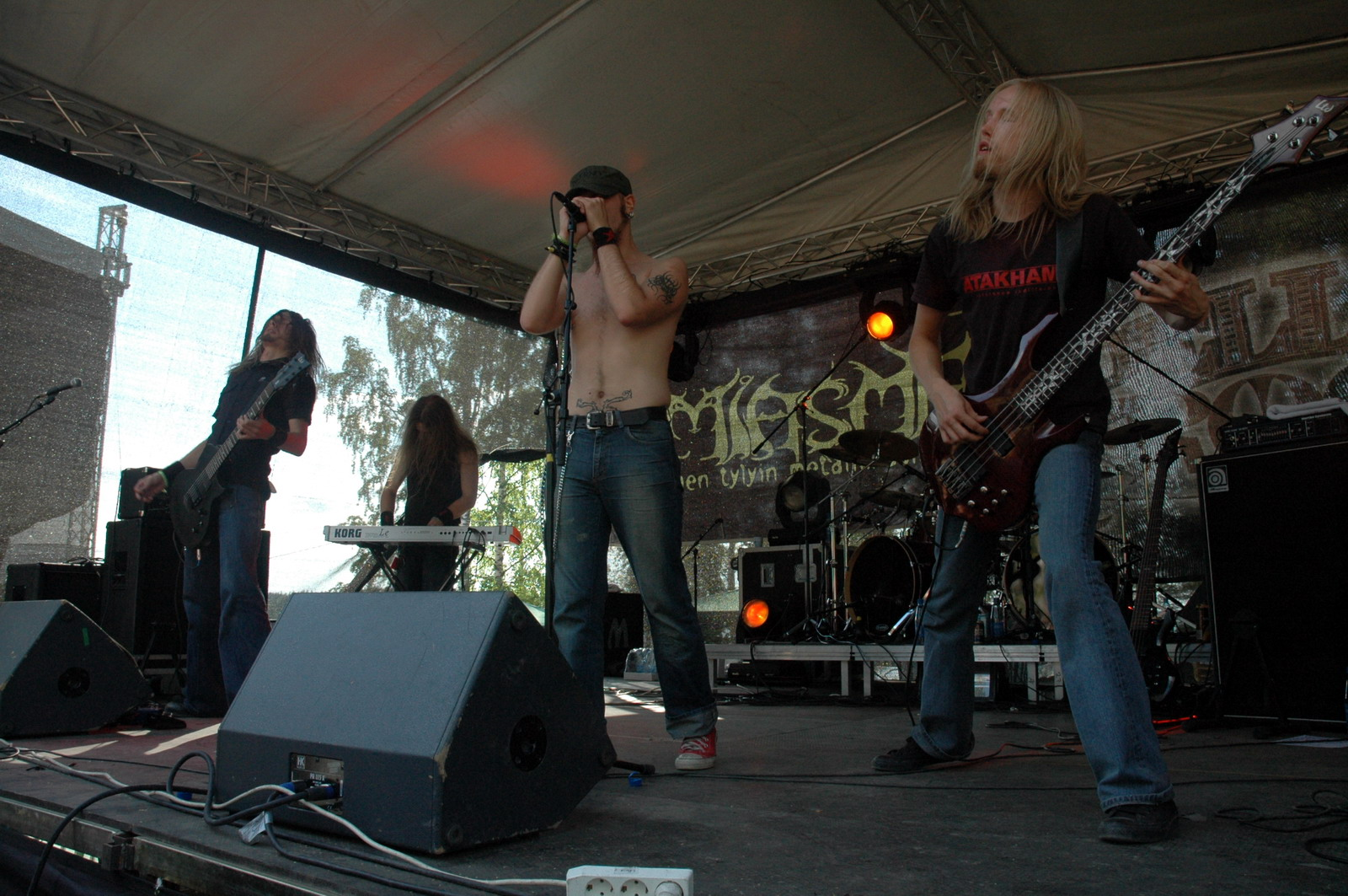 Swallow the Sun band in 2006